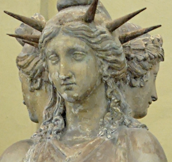 Triple-formed representation of Hecate. Marble, Roman copy after an original of the Hellenistic period.